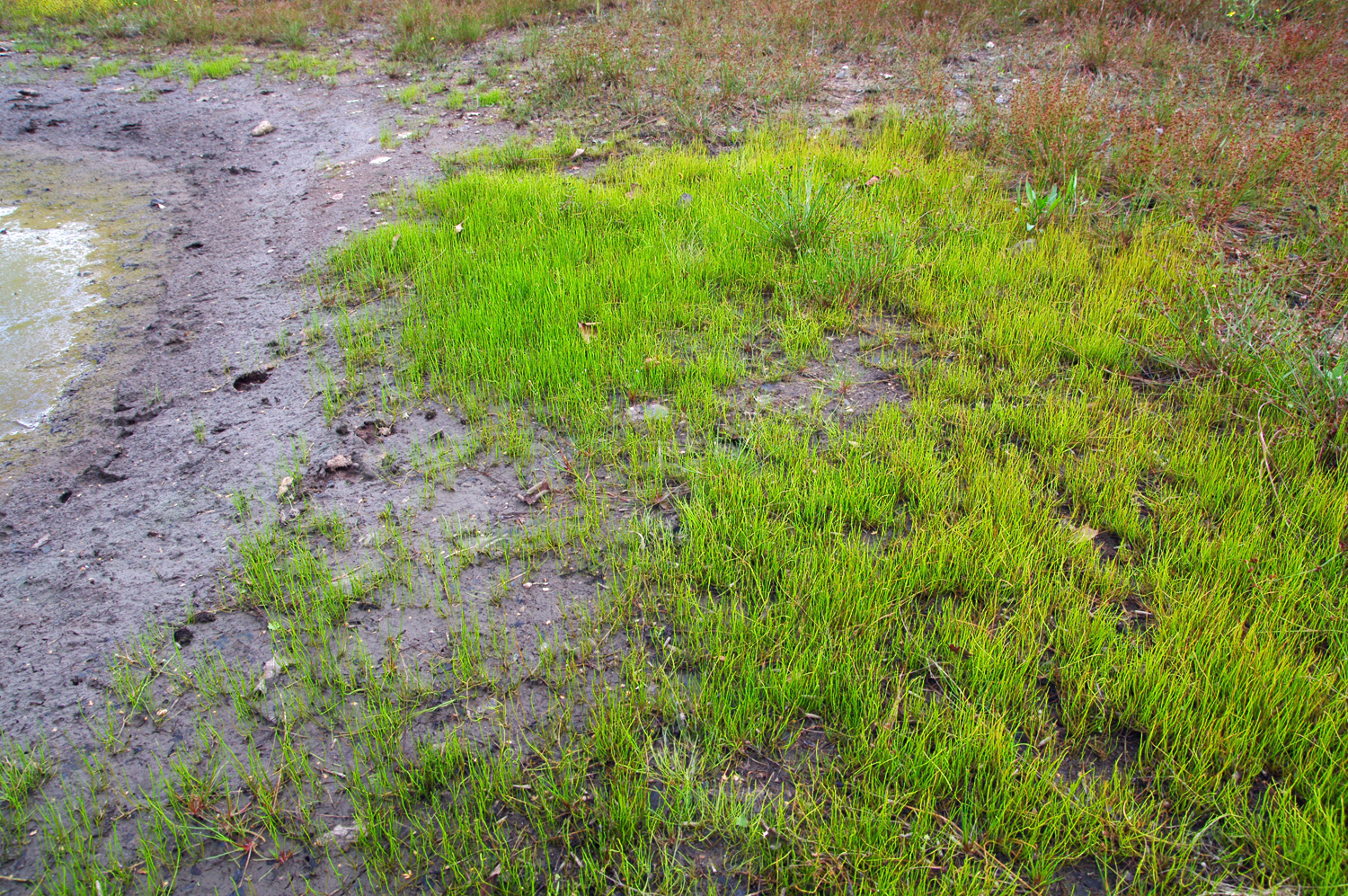 Field of the fern species Pillwort, Pilularia globulifera, in a natural habitat (alternating wet pond bottom).